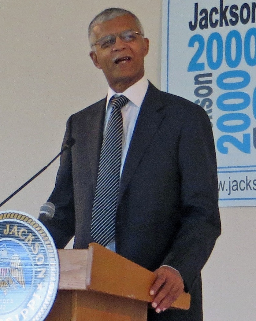 The speaker at today's meeting of Jackson 2000 was Jackson's new Mayor, Chokwe Lumumba.